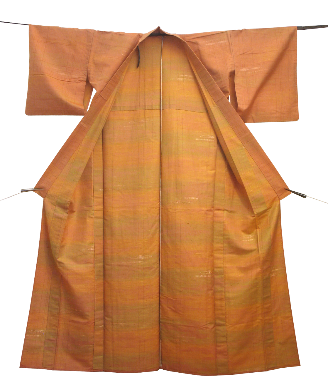 Orange tsumugi/tumugi hitoe komon (soft transitions to greenish keep it from being true iromuji) from my collection